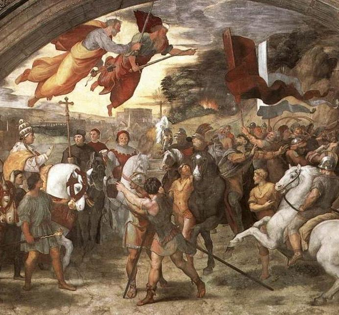 Raphael's The Meeting between Leo the Great (painted as a portrait of Leo X) and Attila Fresco, 1514, Stanza di Eliodoro, Palazzi Pontifici, Vatican [1] The fresco was completed after the death of Julius II (pontiff from 1503 to 1513), during the pontificate of his successor Leo X (pontiff from 1513 to 1521). In fact the latter appears twice in the same scene, portrayed in the guise of Pope Leo the Great and as cardinal. According to legend, the miraculous apparition of Saints Peter and Paul armed with swords during the meeting between Pope Leo the Great and Attila (452 A.D.) caused the king of the Huns to desist from invading Italy and marching on Rome.[2] Source: Web gallery of Art: [3] *